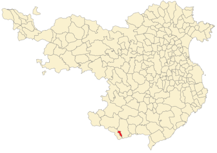 Breda